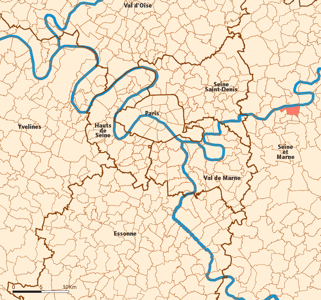 Created map myself.